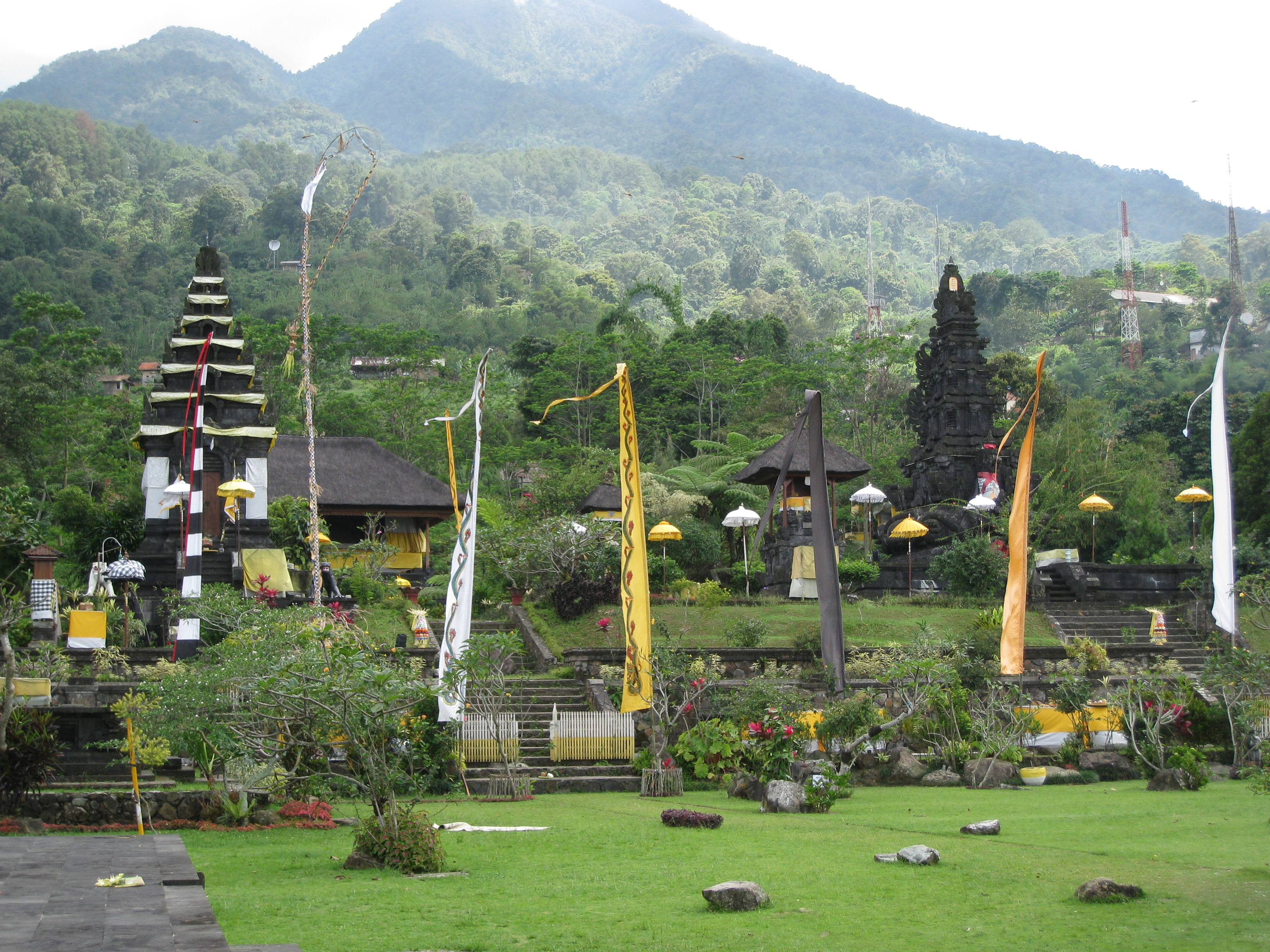 The praying upper section of Pura Parahyangan Agung Jagatkarta. On the left is candi shrine dedicated to Sundanese King Siliwangi, on the back is sacred Bale Pasamuan Agung, and at the right is Padmasana tower main shrine. While Mount Salak volcano on the background. A Nusantara Hindu temple complex on northern slope of Mount Salak in Bogor Regency, West Java, Indonesia.